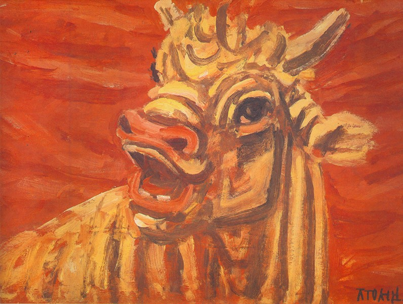 Lee Jung-seob, Bull(1950s), oil on paper, w49.5 x h32.3 cm